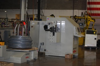 Wire shaping robot at Marlin Steel Wire Products, Baltimore, MD, USA